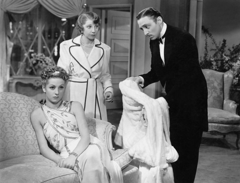 Left to right: Danielle Darrieux, Helen Broderick, and Mischa Auer in The Rage of Paris (1938) - cropped screenshot